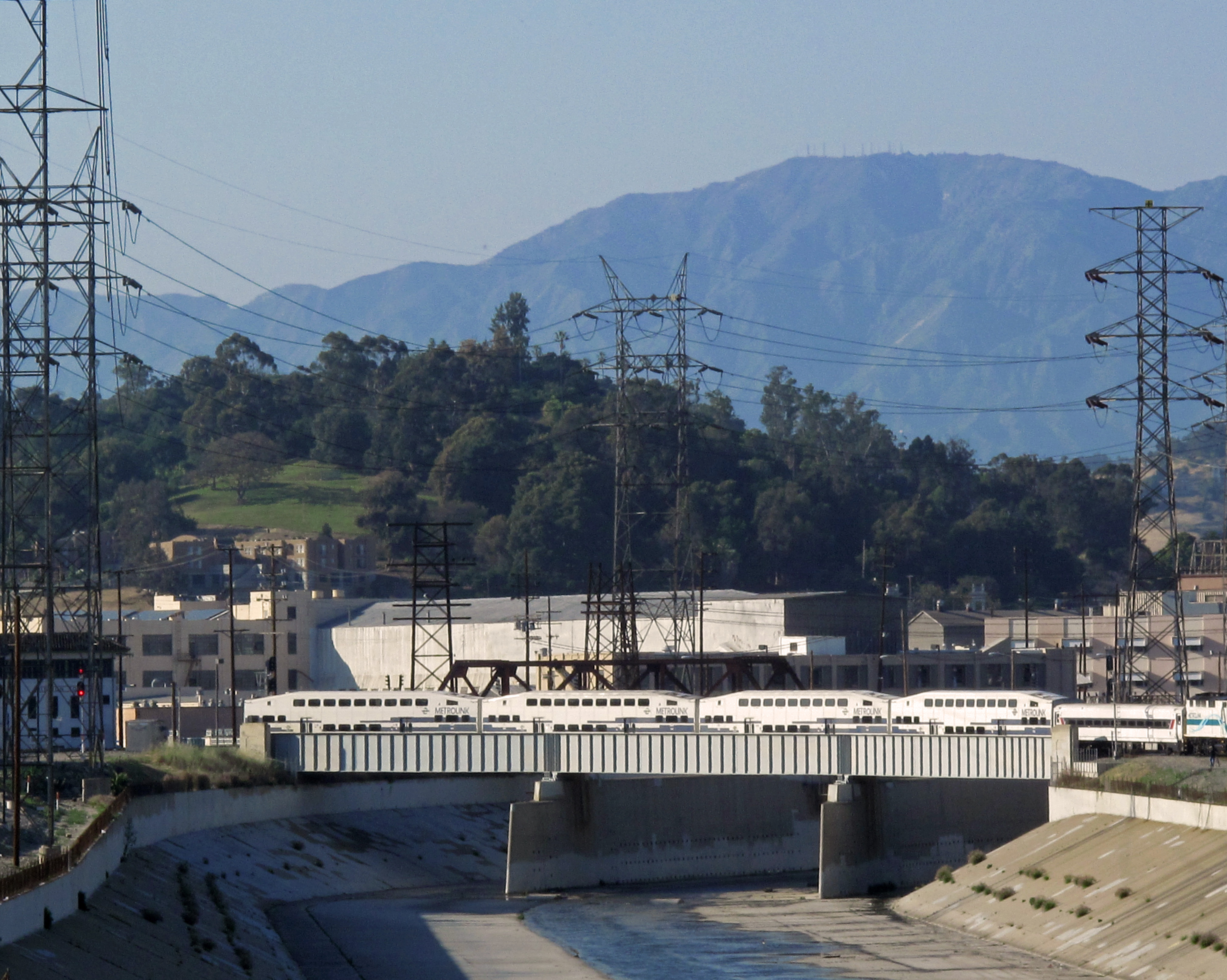 Metrolink commuter train heading north from Union Station, Los Angeles, California, crossing the Los Angeles River. Local time 17:45. At far right is a leased Comet I coach.